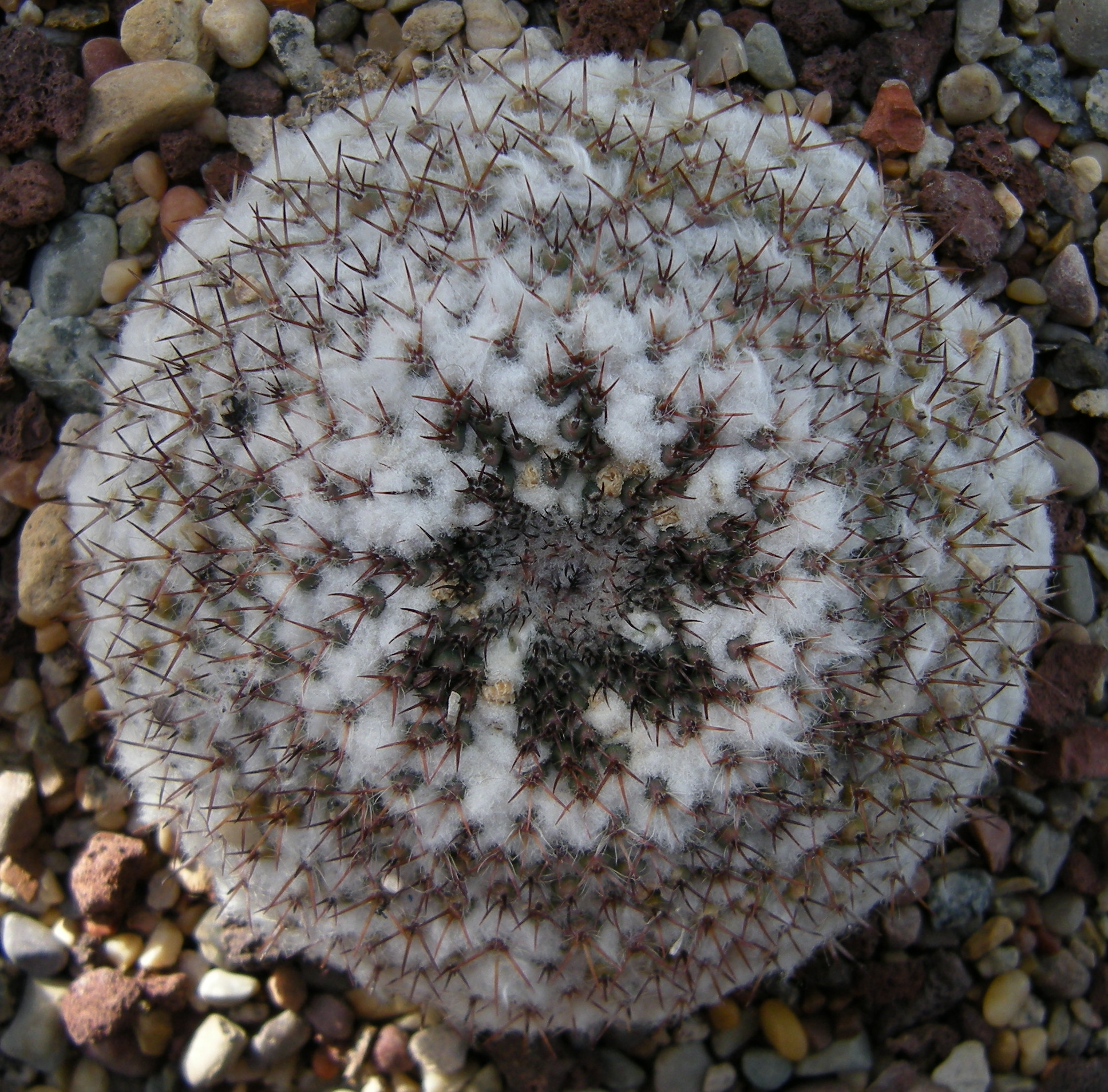 Mammillaria semperviva. Photographed at Volunteer Park Conservatory, Seattle, Washington.